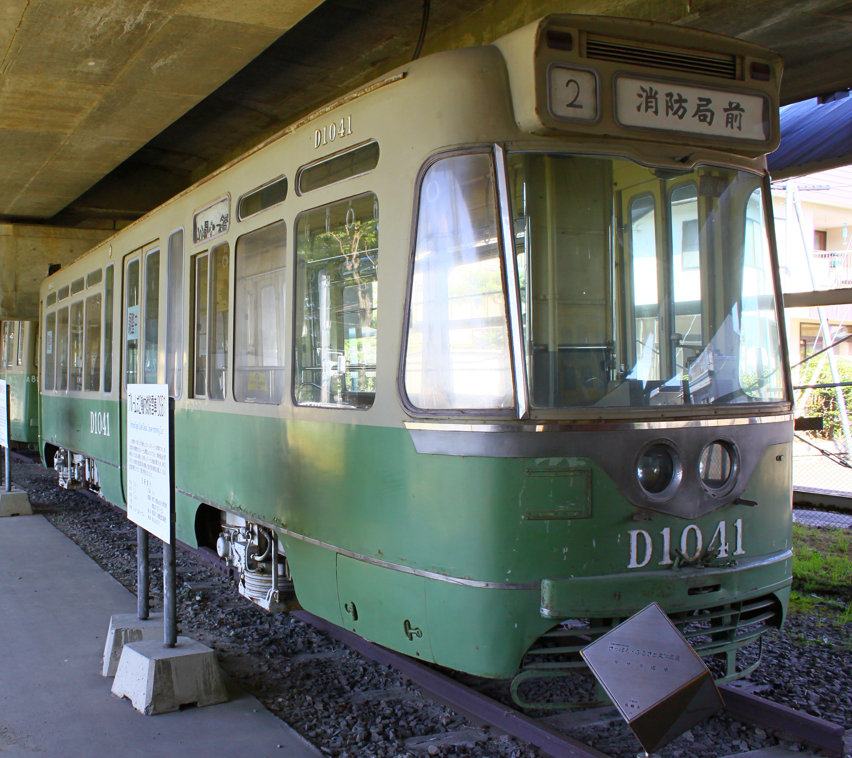 Sapporo City Transportation D1040 Disel car.